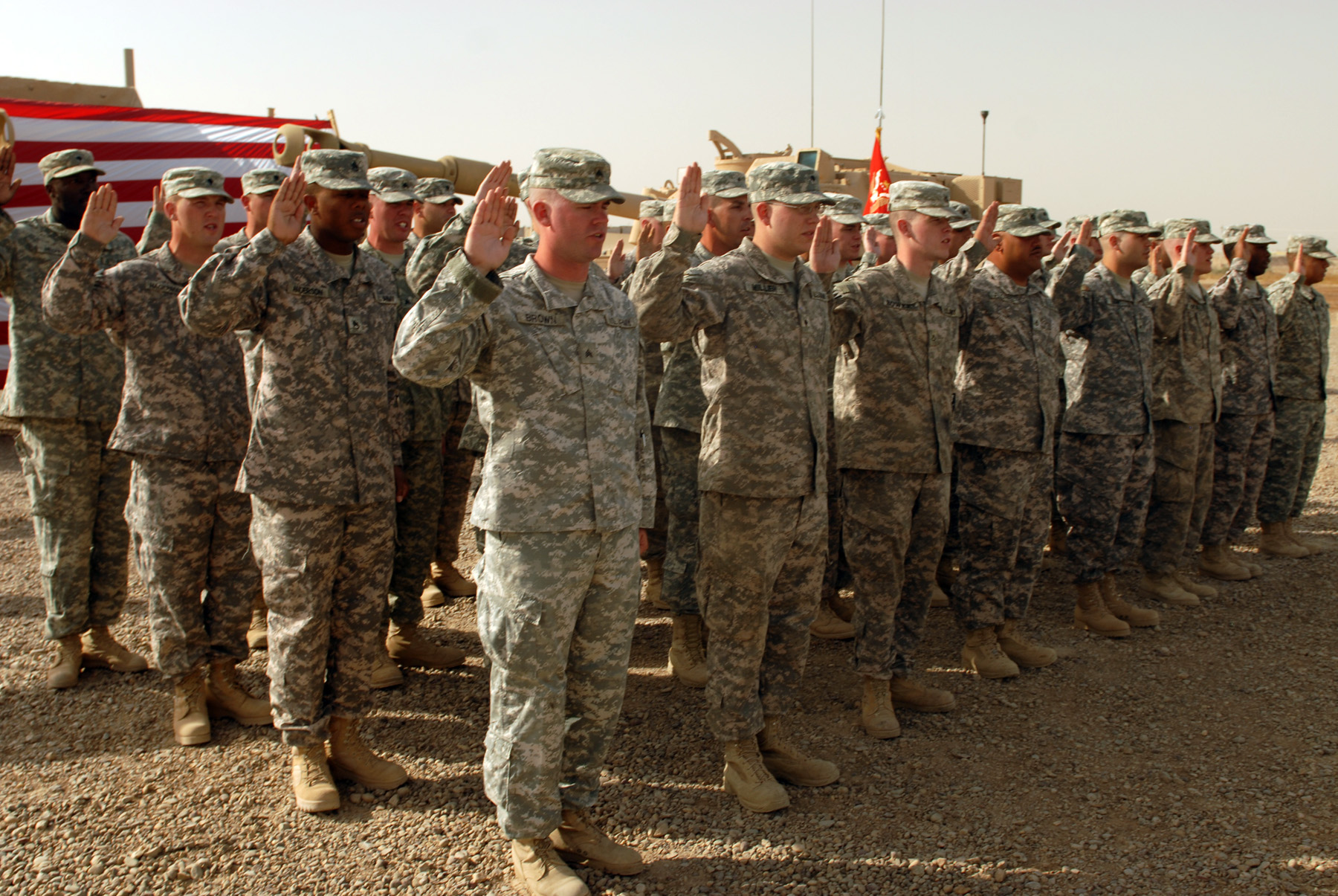 CAMP TAJI, Iraq - Forty-one Soldiers of the 1st Battalion, 82nd Field Artillery Regiment, 1st Brigade Combat Team, 1st Cavalry Division, raise their right hands during a re-enlistment ceremony held at Fire Base Mayhem here, Oct. 4. Lt. Col. Eric Schwegler, commander of the 1st Bn., 82nd FA Regt., administered the oath of enlistment to the Soldiers. "Almost to the letter, every one of these Soldiers joined the Army after this nation was at war," said Schwegler, of Ozark, Ala. "We're still a nation at war and here they stand and raise their right hand." A total of 83 Soldiers in the "Dragon" Battalion have re-enlisted in the fiscal year 2008-09.